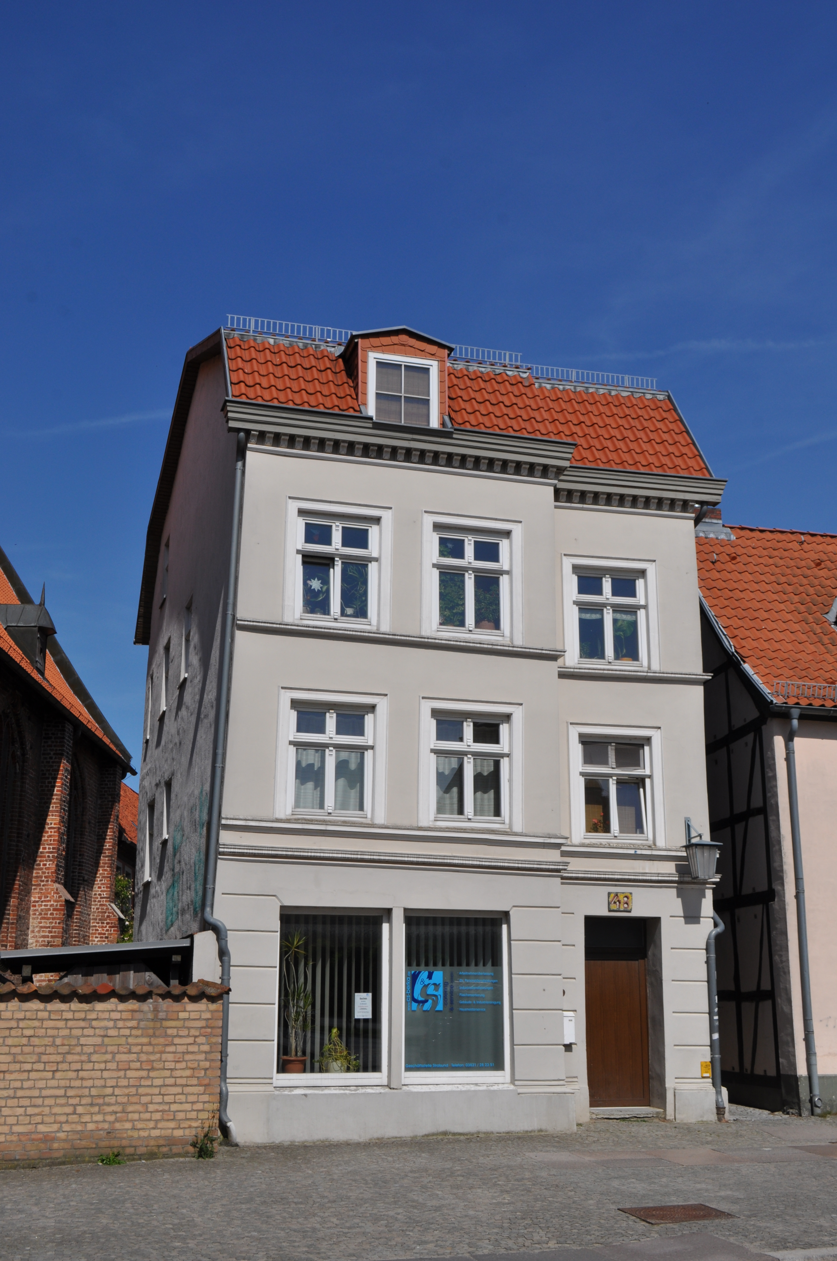 Stralsund, Wasserstraße 48 This is a photograph of an architectural monument.